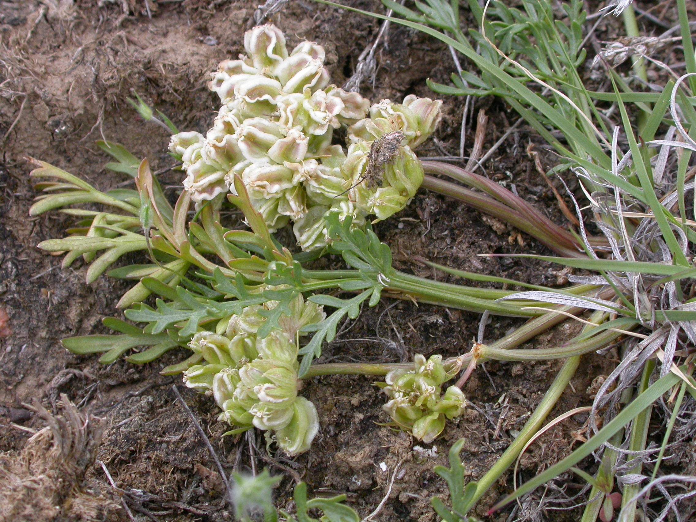 An early summer flowering low growing herb that produces spherical heads of fruits where each fruit bears radiating longitudinal wings.